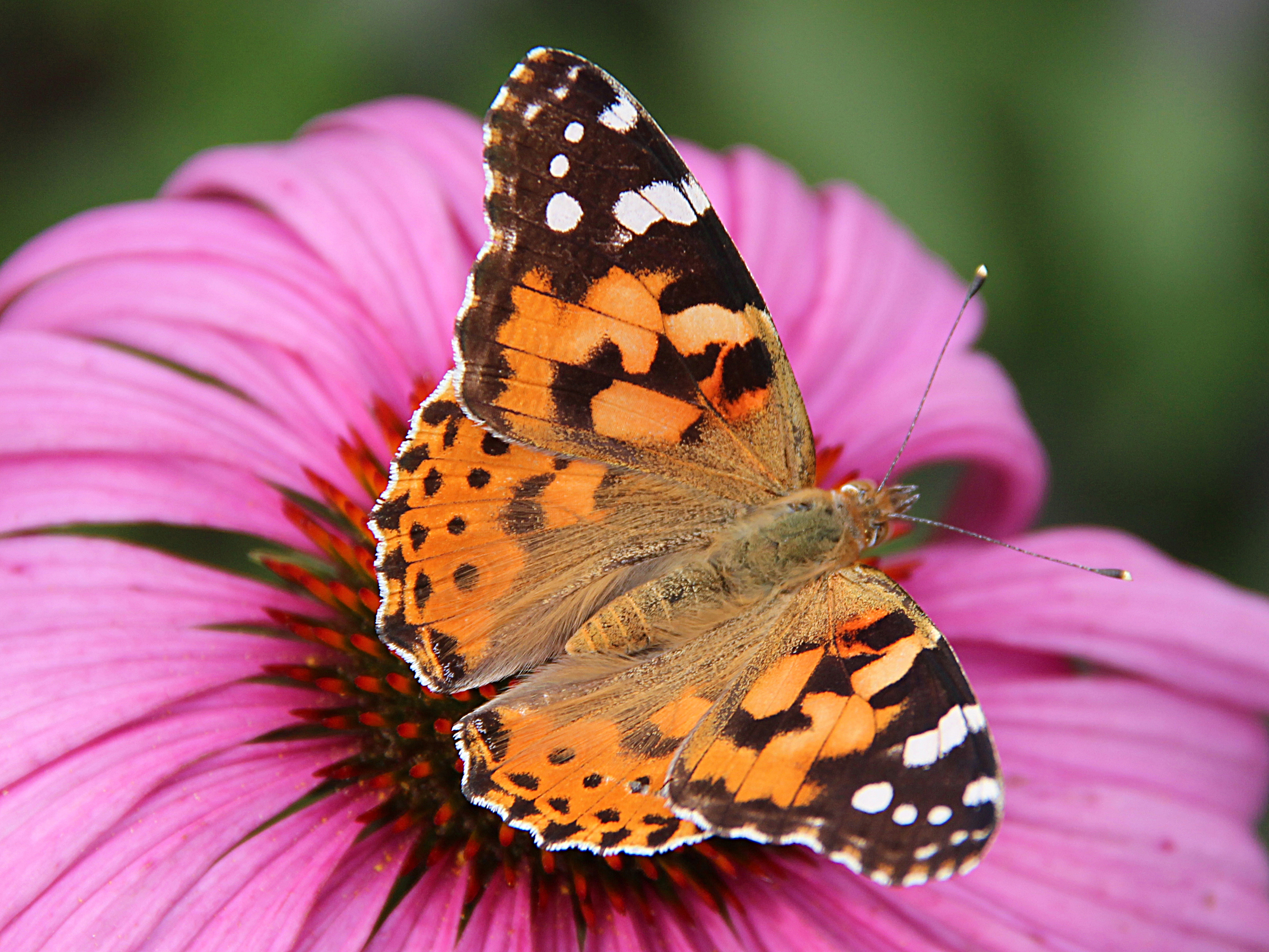 Painted Lady (Vanessa cardui) foraging a flower of a purple coneflower (Echinacea purpurea) - Havré (Belgium)